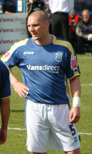 Photo of footballer Darren Purse